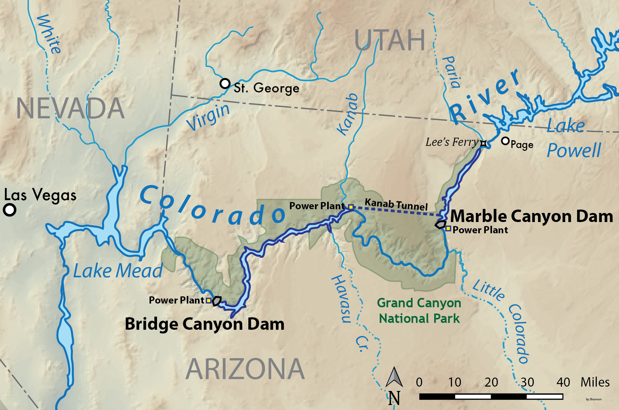 Map showing the locations of the Bridge and Marble Canyon Dams proposed by the US Bureau of Reclamation in the 1950s, to dam the Colorado River in the Grand Canyon. The dams were part of the Pacific Southwest Water Plan whose ultimate goal was to import water into the Colorado River basin from the north. After a long controversy they were never built. Made using USGS shaded relief data.